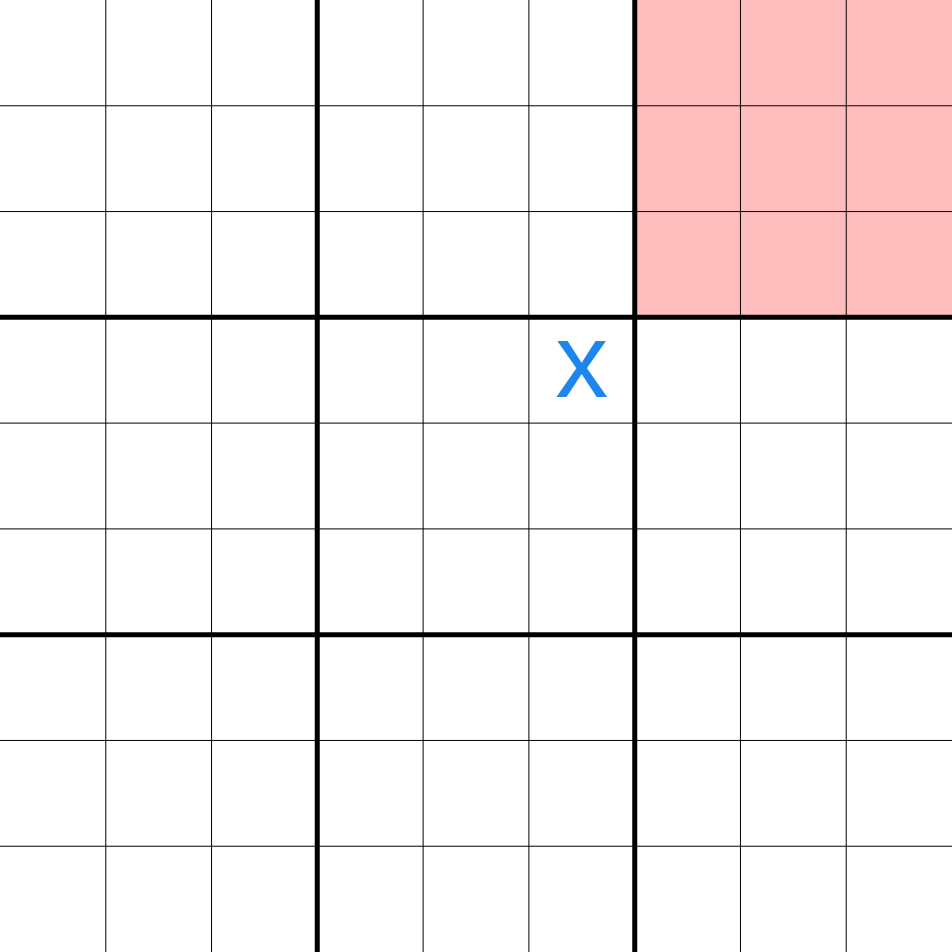 Since X played in the top-right corner of the local board, O is forced to play in the top-right local board.